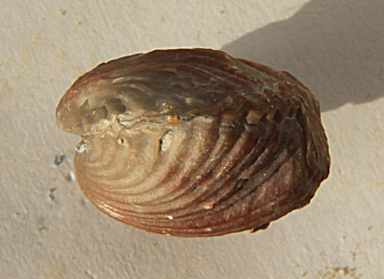 An Oxoplecia gouldi lampshell, Order Orthotetida, Family Triplesiidae, 17mm along the axis, lateral view, collected from the Poolville Member of the Bromide Formation, Criner Hills, Carter County, Oklahoma, USA, from the Upper Ordovician (Katian)